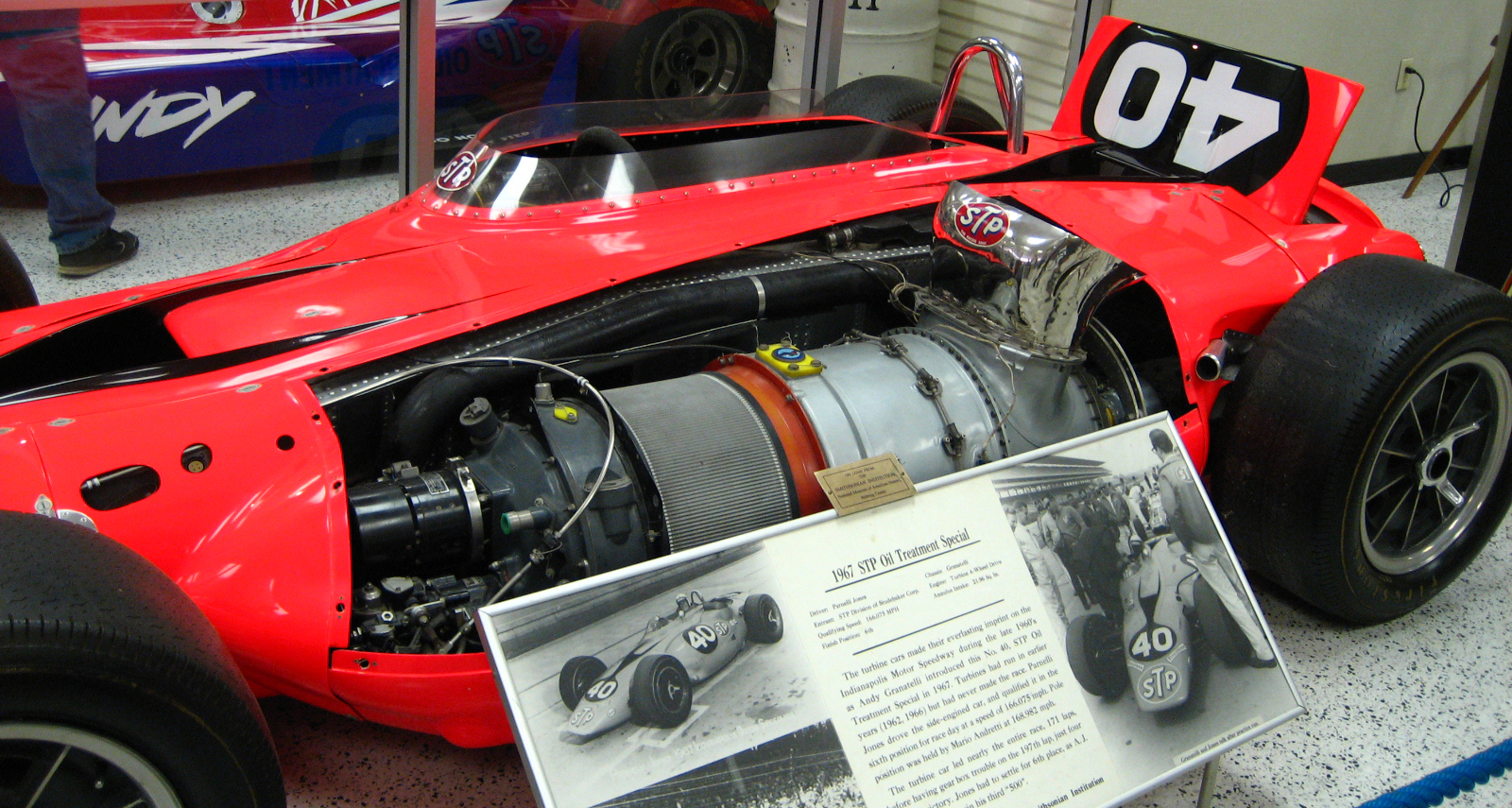 A photograph of the STP Special Gas-Turbine at the Indianapolis 500 Motor Speedway Hall of Fame Museum